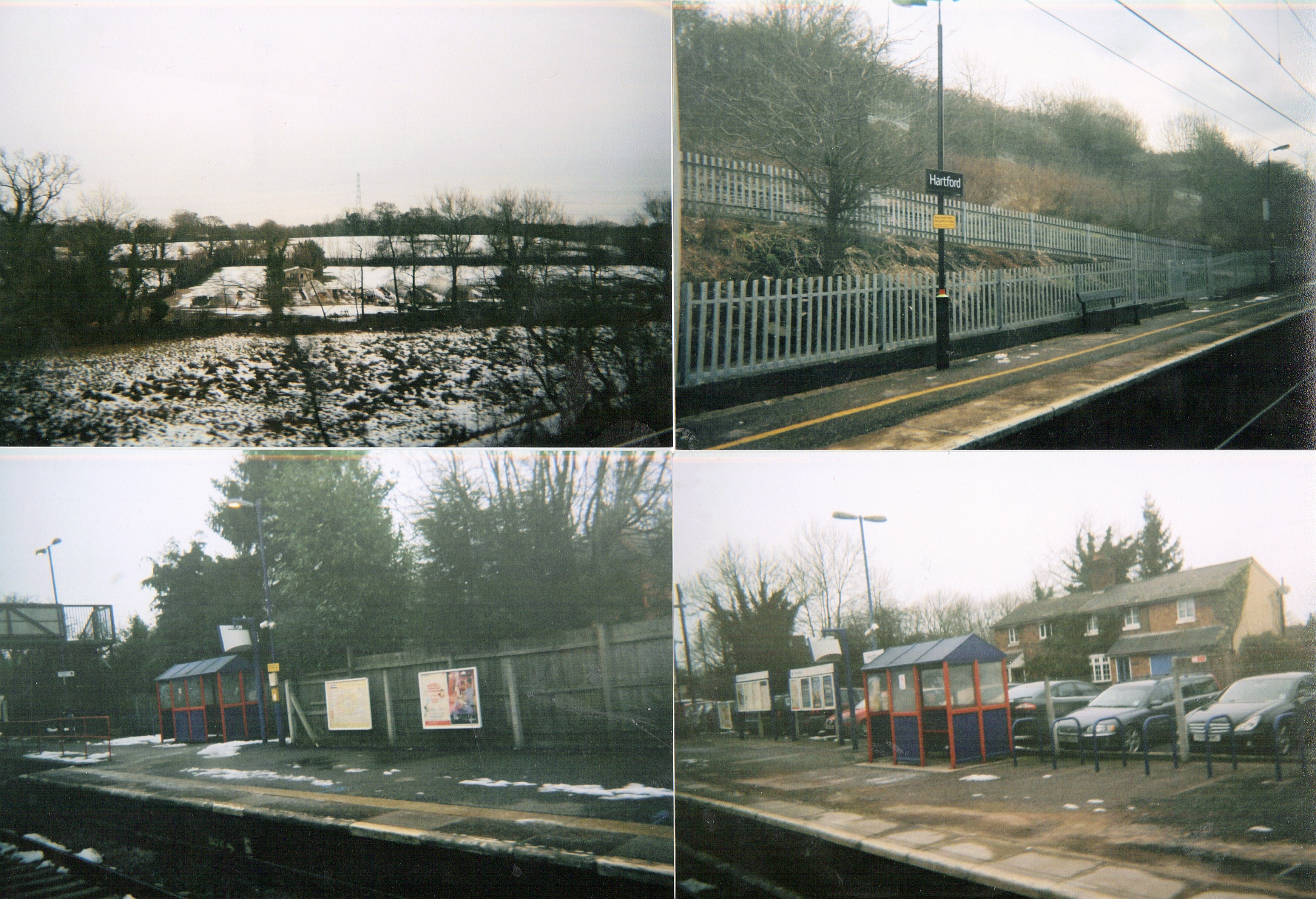 Snow in Warwickshire and Cheshire the last week of February 2010. Top left: Warwickshire landscape between Hatton and Lapworth. Top right: Hartford railway station, Cheshire. Bottom left: Hatton railway station, Warwickshire. Bottom right: Lapworth railway station, Warwickshire.